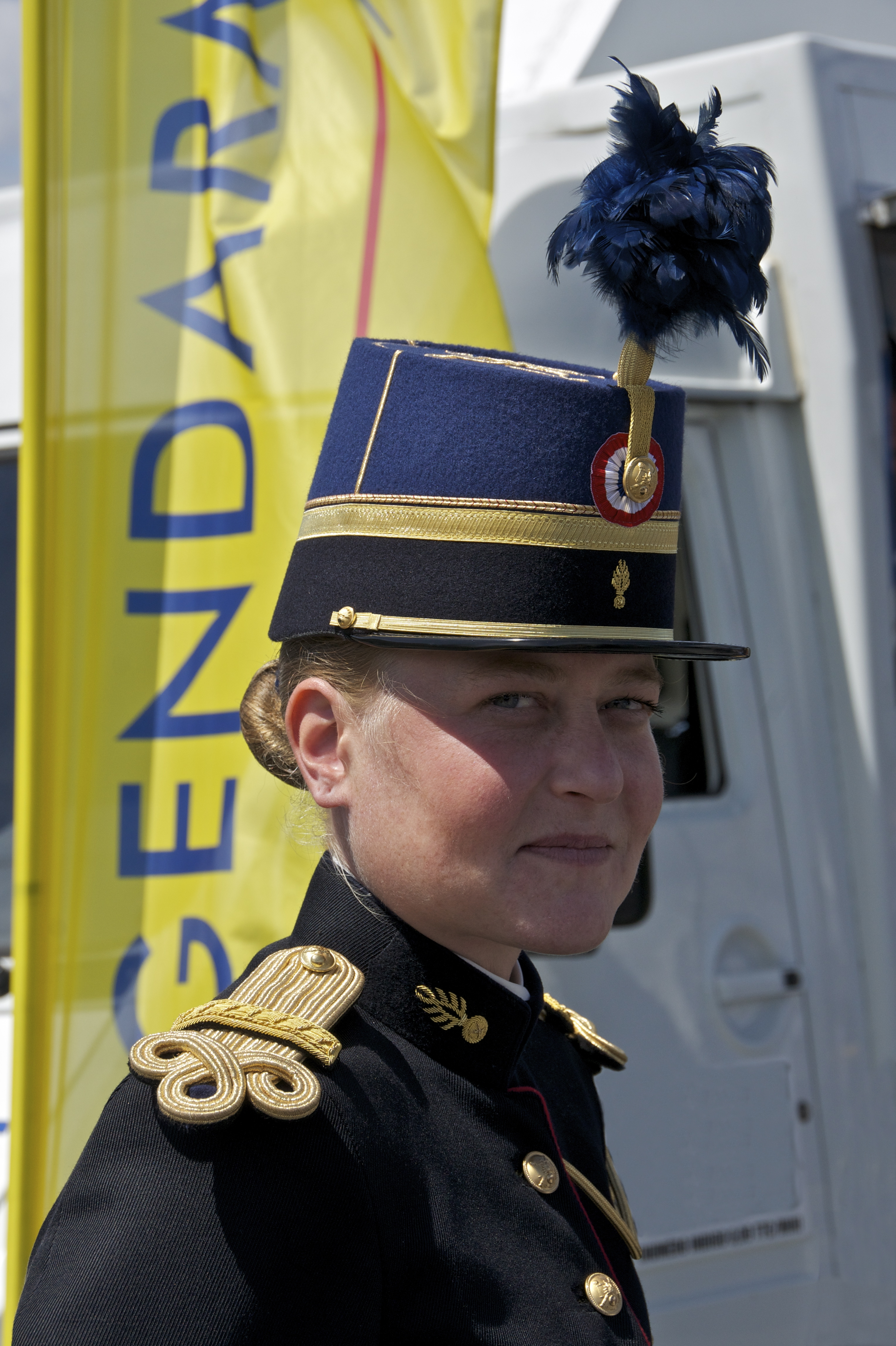 Officer Cadet of the French Gendarmerie Nationale, in traditional uniform, with the "taconnet" (hat)